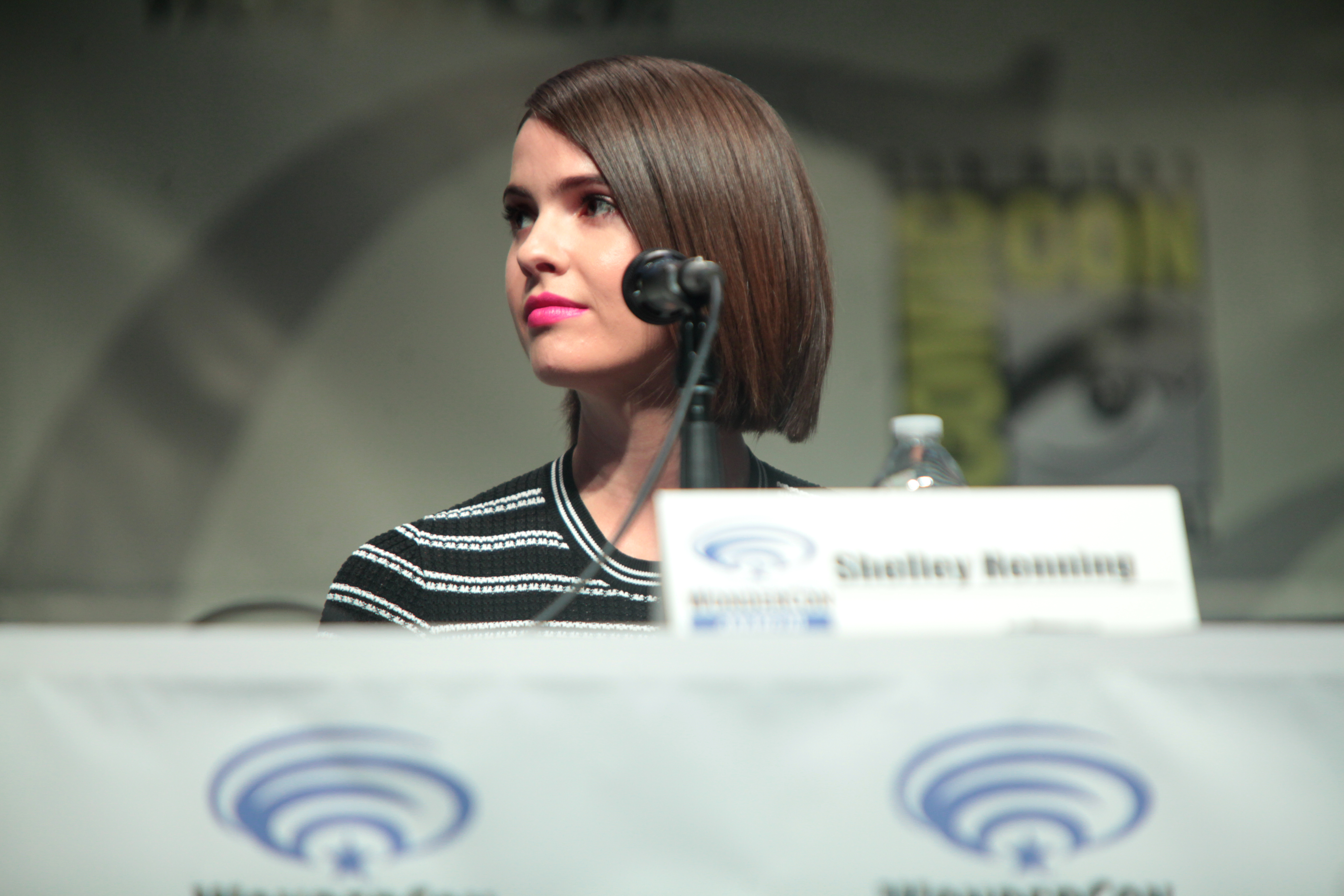 Shelley Hennig speaking at the 2015 Wondercon, for "Unfriended", at the Anaheim Convention Center in Anaheim, California.